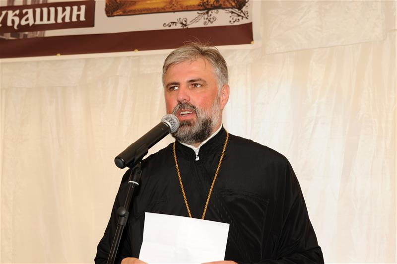 Transfered from Serbian Wikipedia